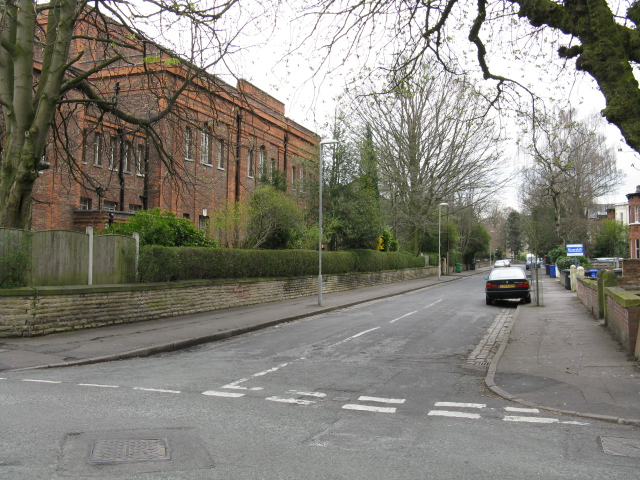 West Didsbury - Queenston Road The large building on the left is a synagogue.